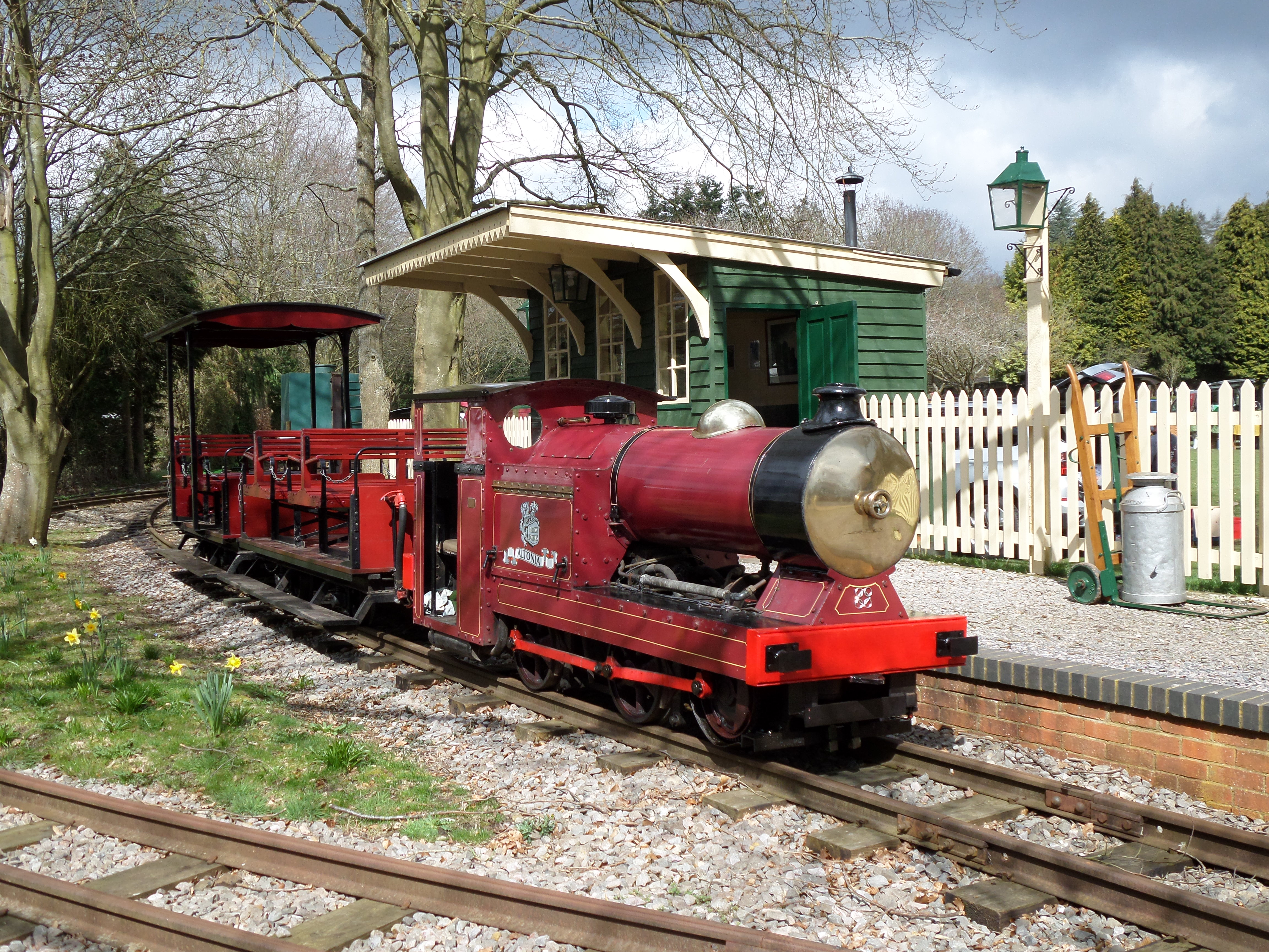 Steam outline locomotive built by Baguley, named "Altonia", waiting in the platform at Reeds Road station on the Old Kiln Light Railway, Tilford, England.